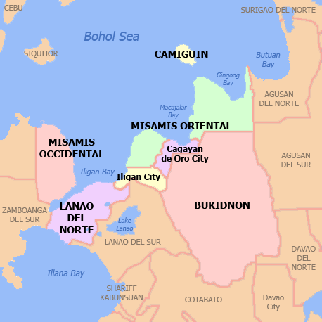 Political map of Northern Mindanao Region, Philippines. Showing Bukidnon, Camiguin, Lanao del Norte, Misamis Occidental, Misamis Oriental, Cagayan de Oro City and Iligan City.